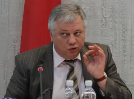 Anatol Arapu